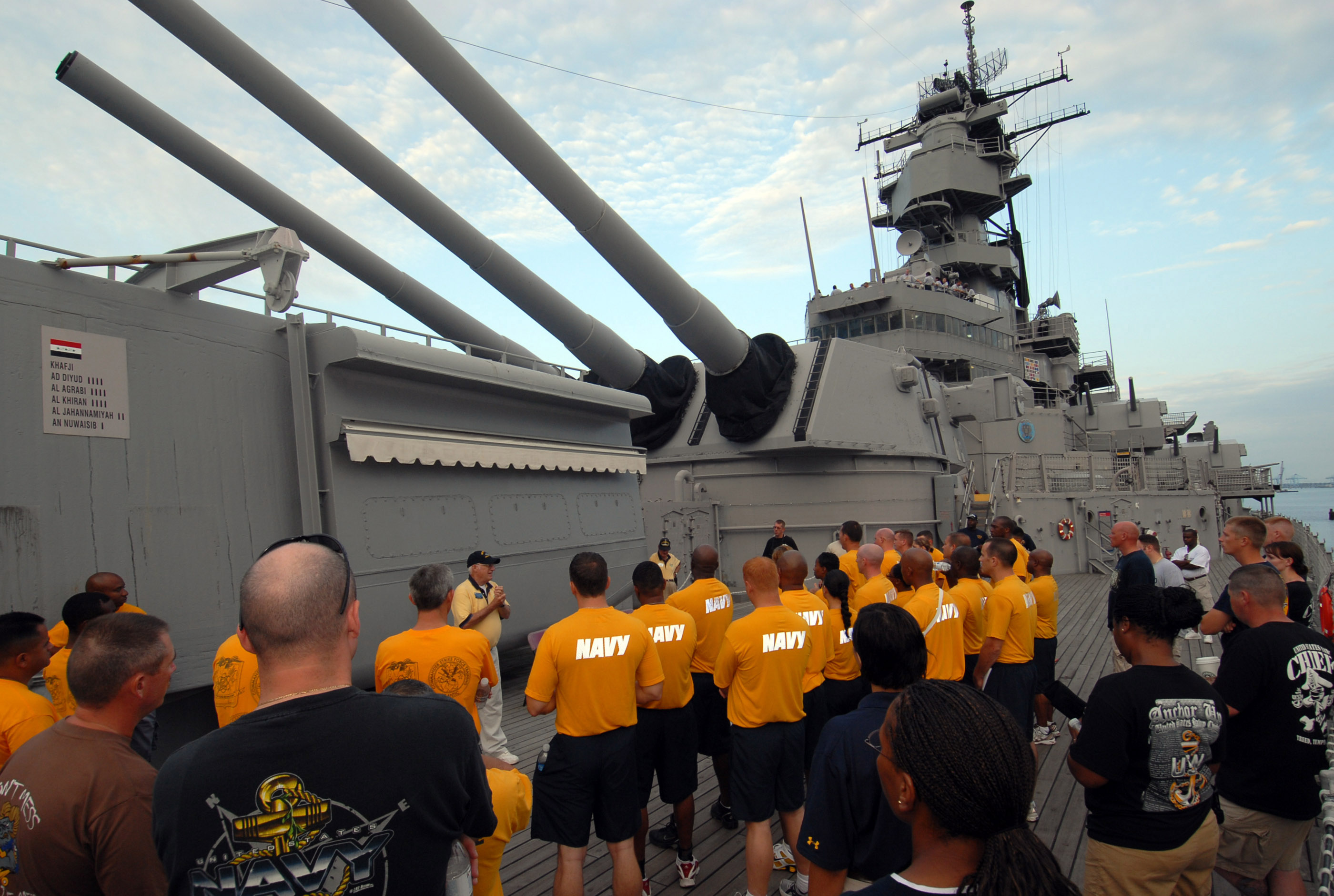 NORFOLK (Aug. 16, 2010) Chief petty officer (CPO) selectees from local commands listen to a tour guide explain the history of the Battleship Wisconsin during the 10th annual CPO Heritage Days in downtown Norfolk. (U.S. Navy photo by Mass Communication Specialist 2nd Class John Stratton/Released)